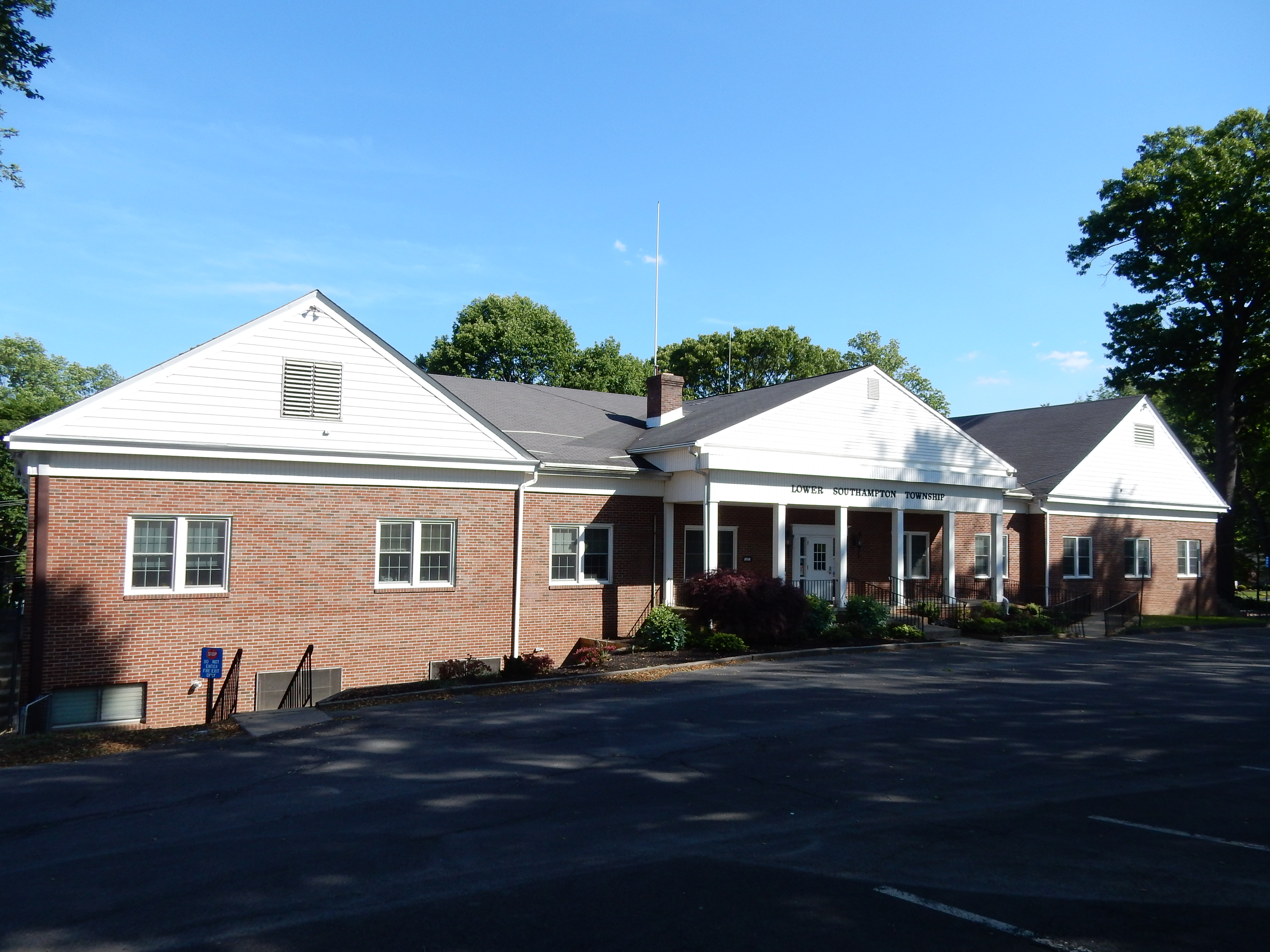 Lower Southampton Township Hall, 1500 Desire Ave., Feasterville, Bucks County, Pennsylvania